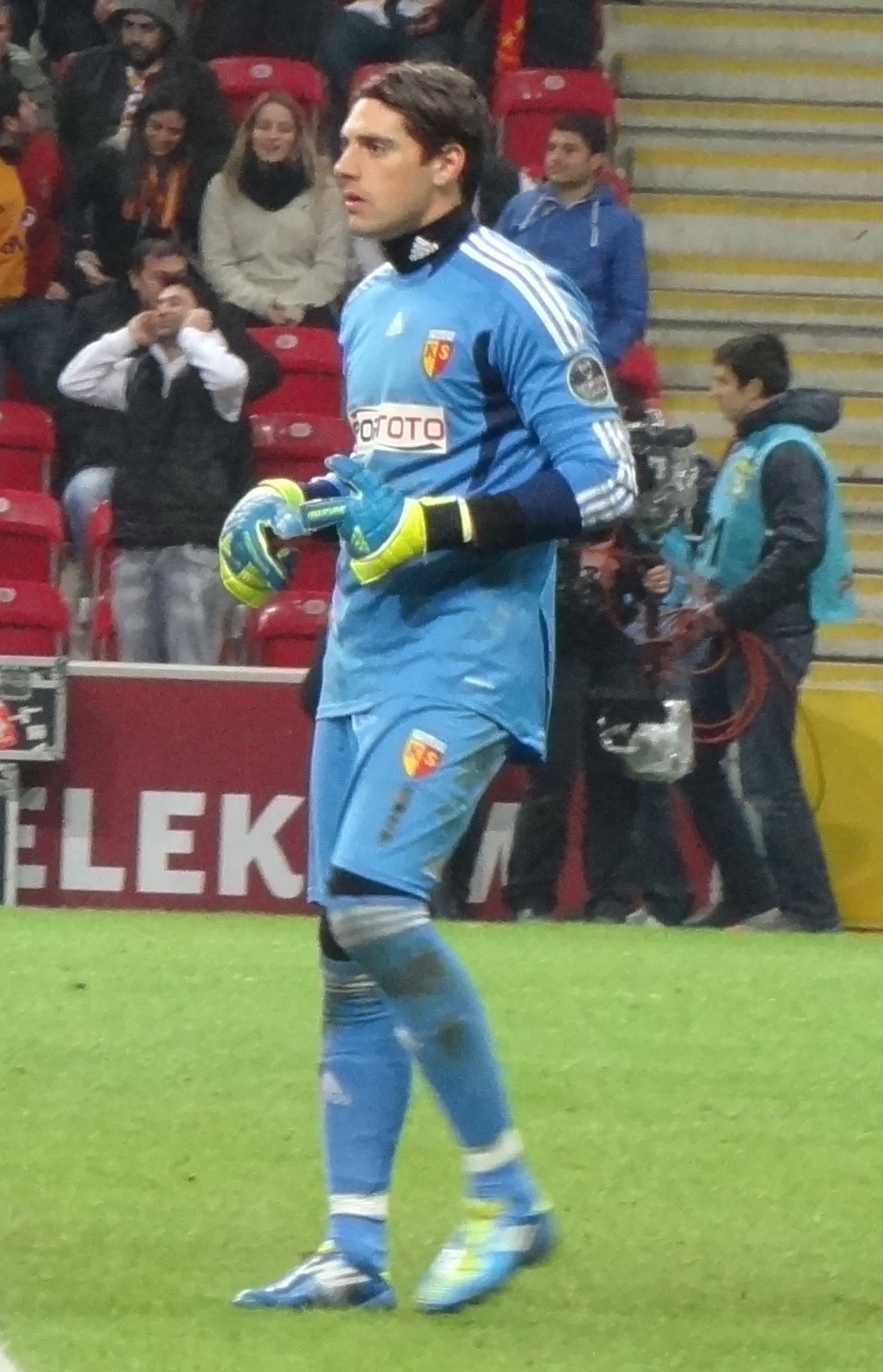 Nicolas Navarro playing for Kayserispor. Galatasaray-Kayserispor